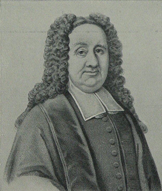 Portrait of Achilles Augustus von Lersner (1662-1732) Patrician and Historian in Frankfurt am Main, Germany